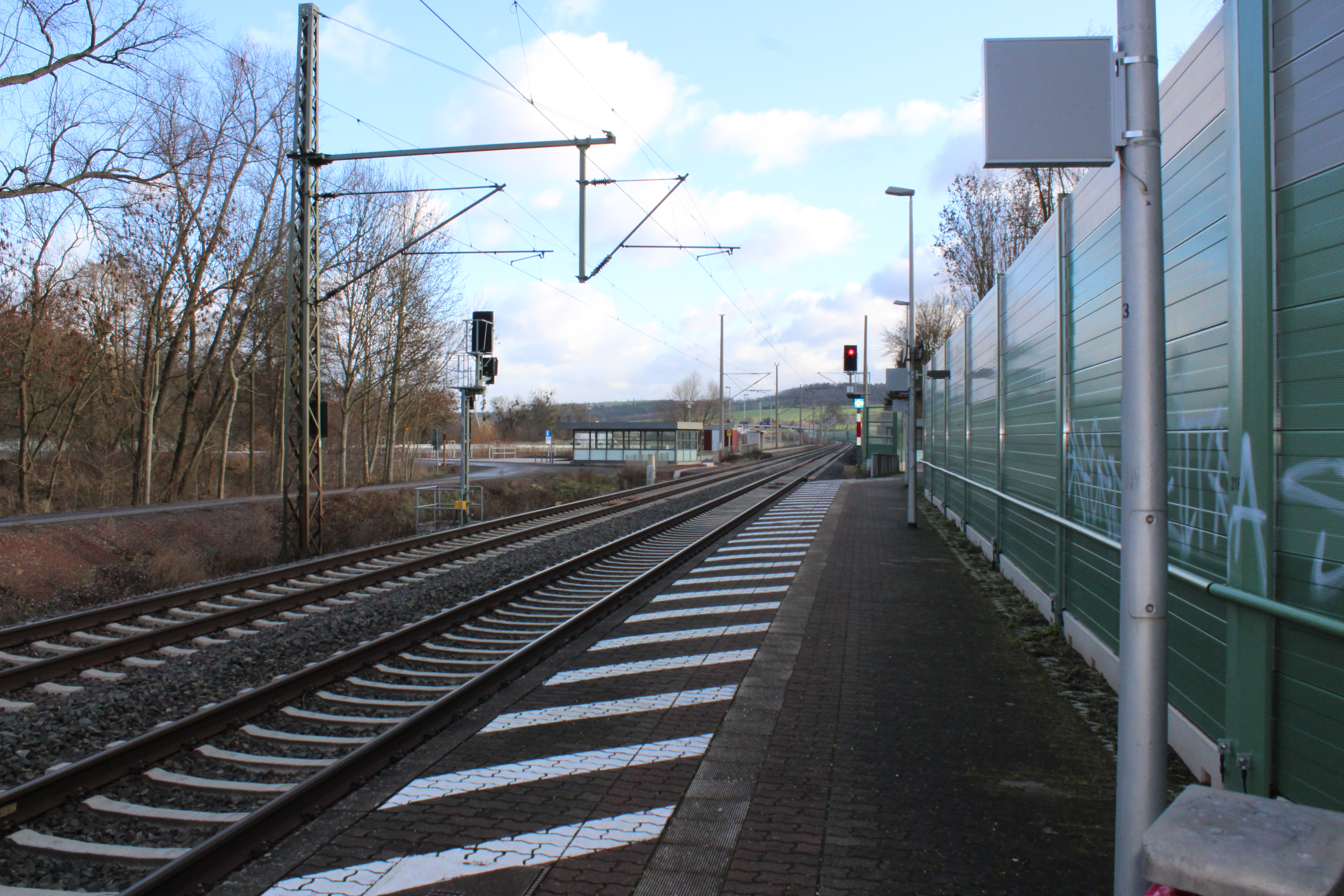 train station Schönau (Hörsel)